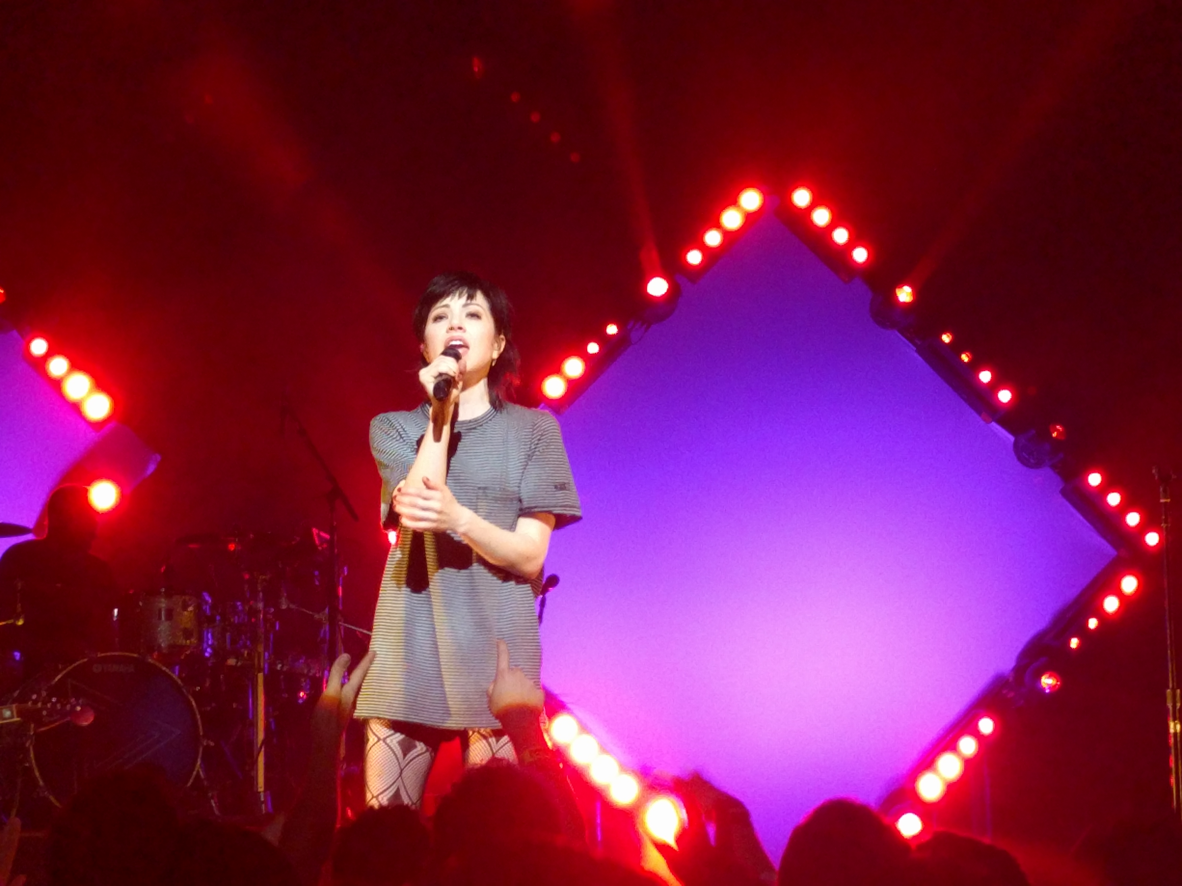 Carly Rae Jepsen performs on 27 February, 2016 at the Warfield Theater in San Francisco, CA, on her Gimmie Love Tour.